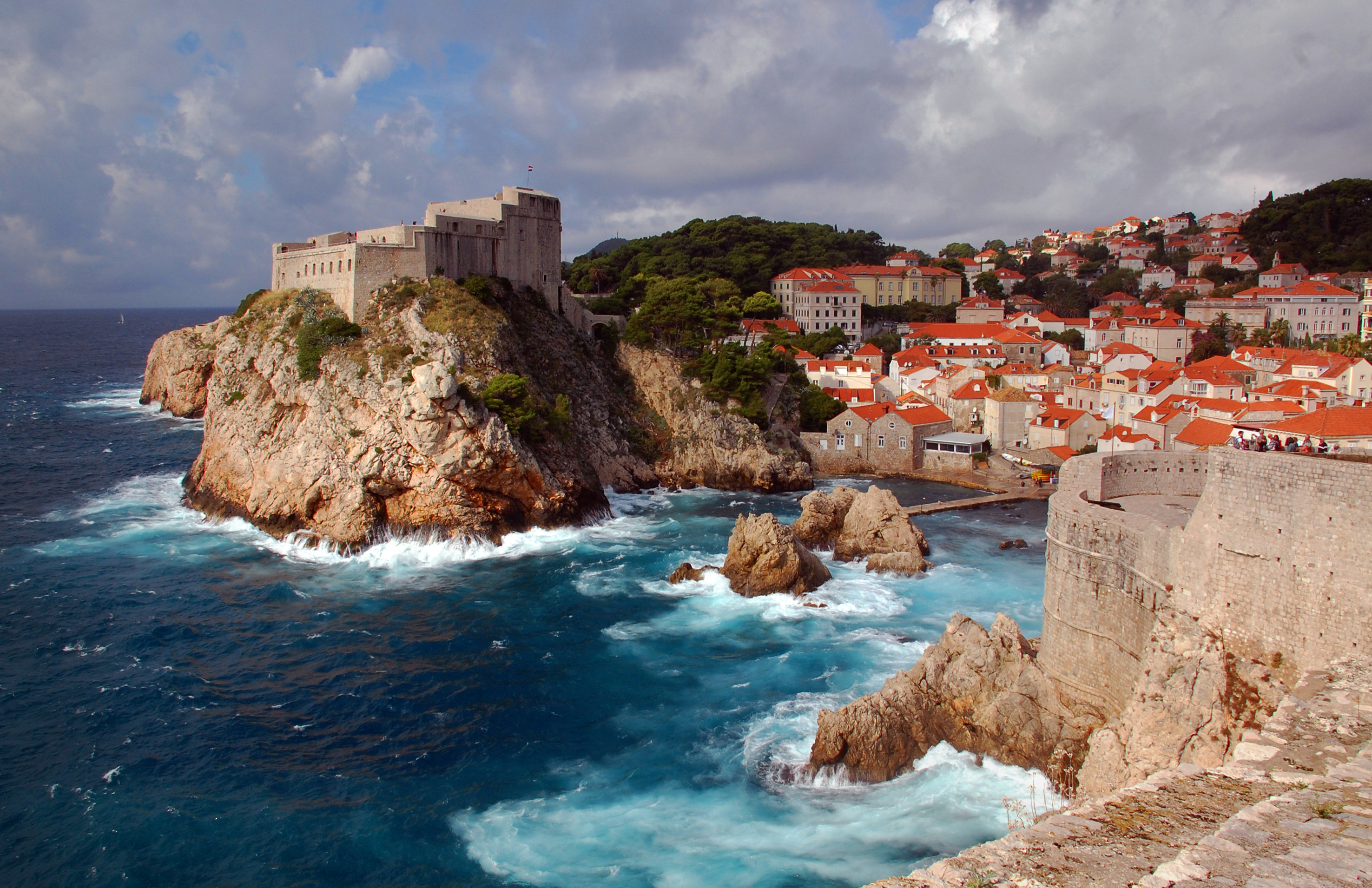 Dubrovnik, Croatia- Pictured: Fort Lovrijenac(upper left) & Fort Bokar(lower right) Oct 2013